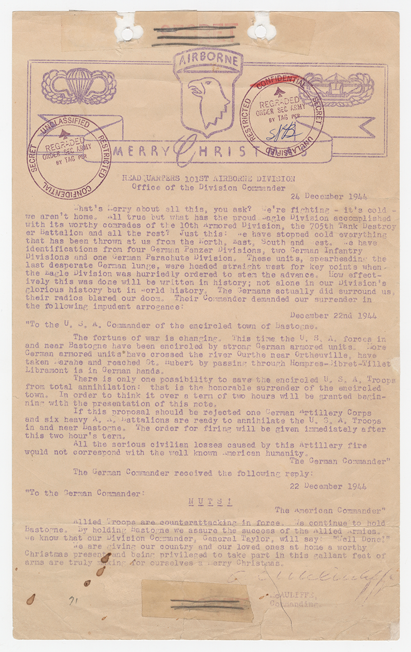 Gen. Anthony McAuliffe's Christmas Message, December 24, 1944 National Archives, Records of the Adjutant General's Office